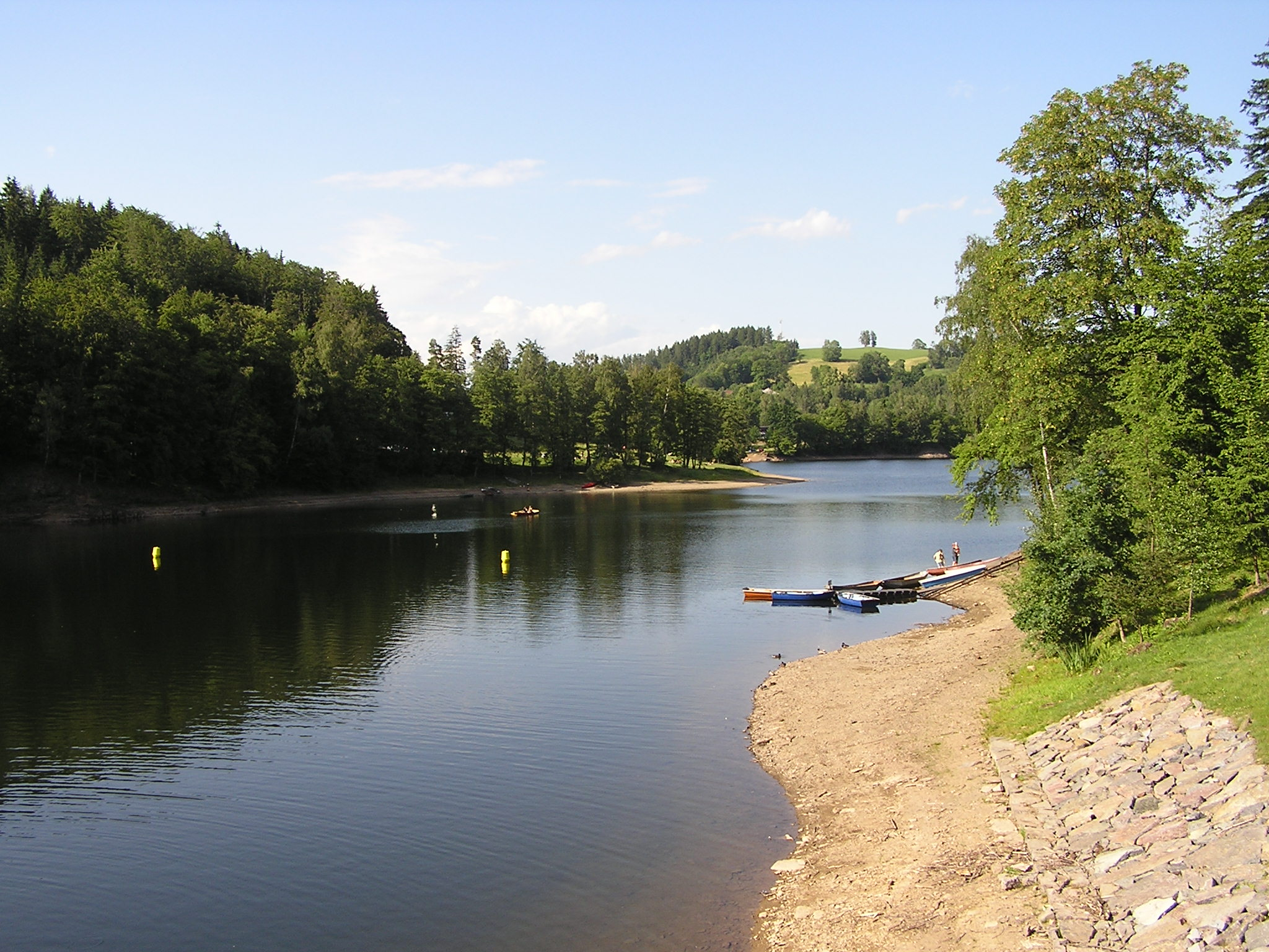 Water reservoir Pastviny on Divoká Orlice river